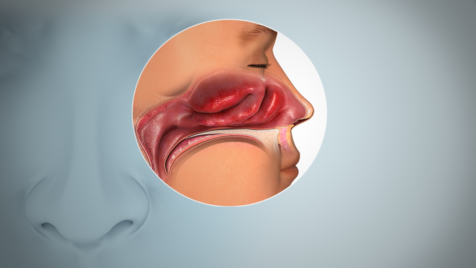 Inflammation of nasal membranes results in blockage of air flow, and hence, leads to anosmia.